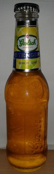 Grolsch Stender Lemon&Lime (.25 twistoff/screw cap bottle)